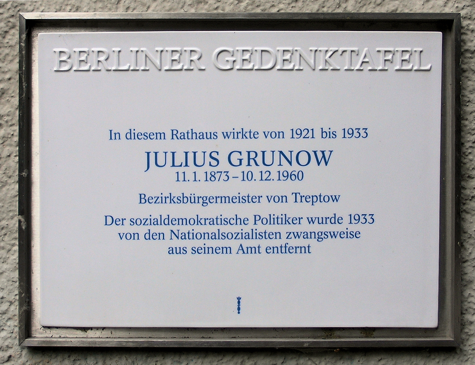 Berlin memorial plaque, Julius Grunow, Neue Krugallee 4, Berlin-Plänterwald, Germany